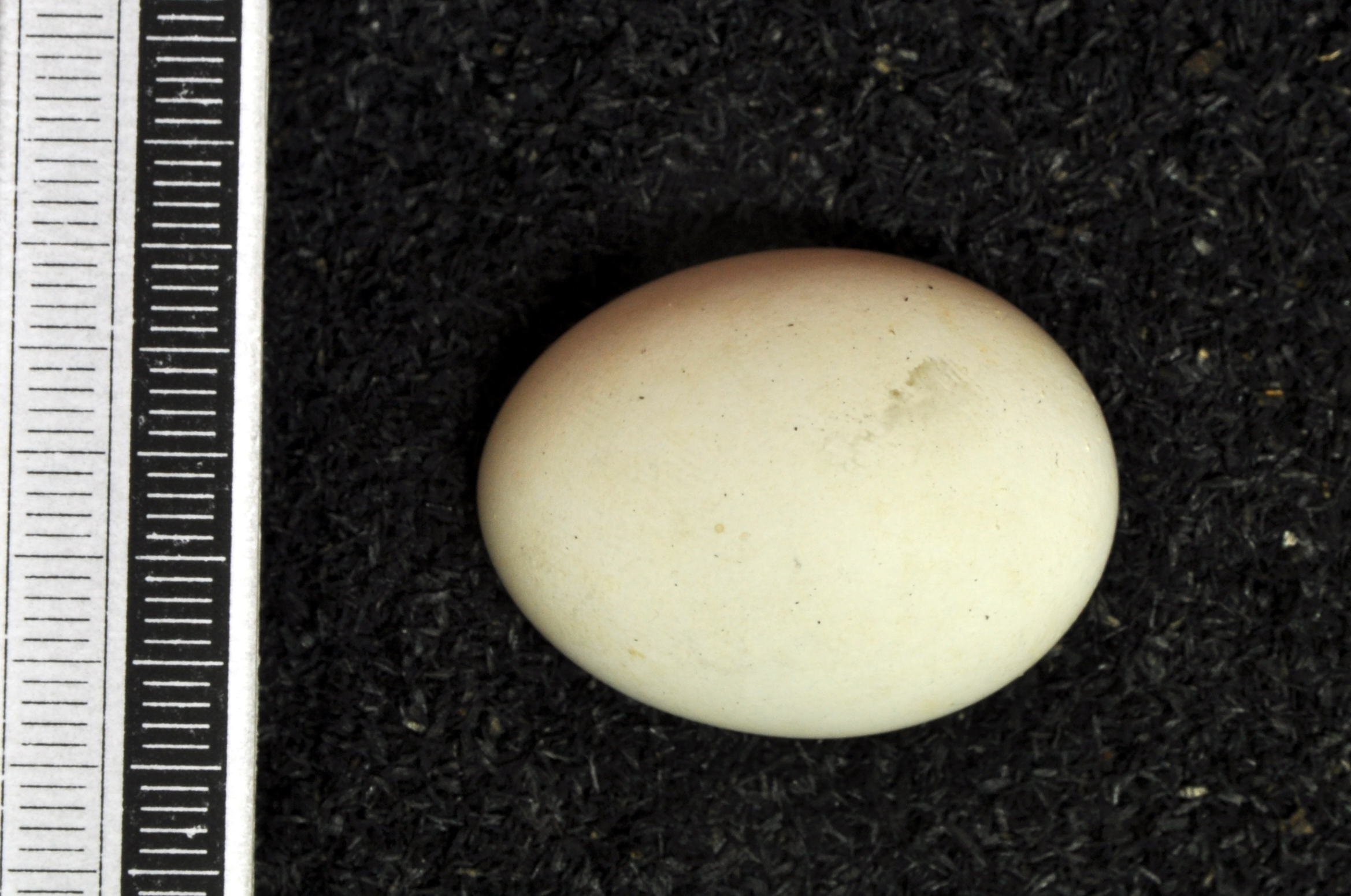 Yellow bittern Ixobrychus sinensis , egg, Coll. Museum Wiesbaden